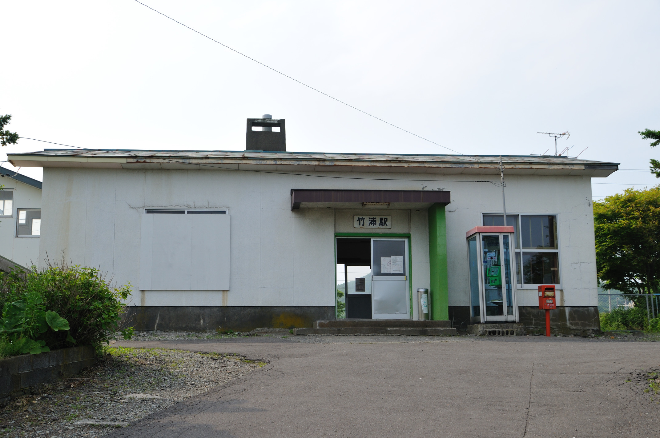 Takeura station, Shiraoi, Hokkaido, Japan